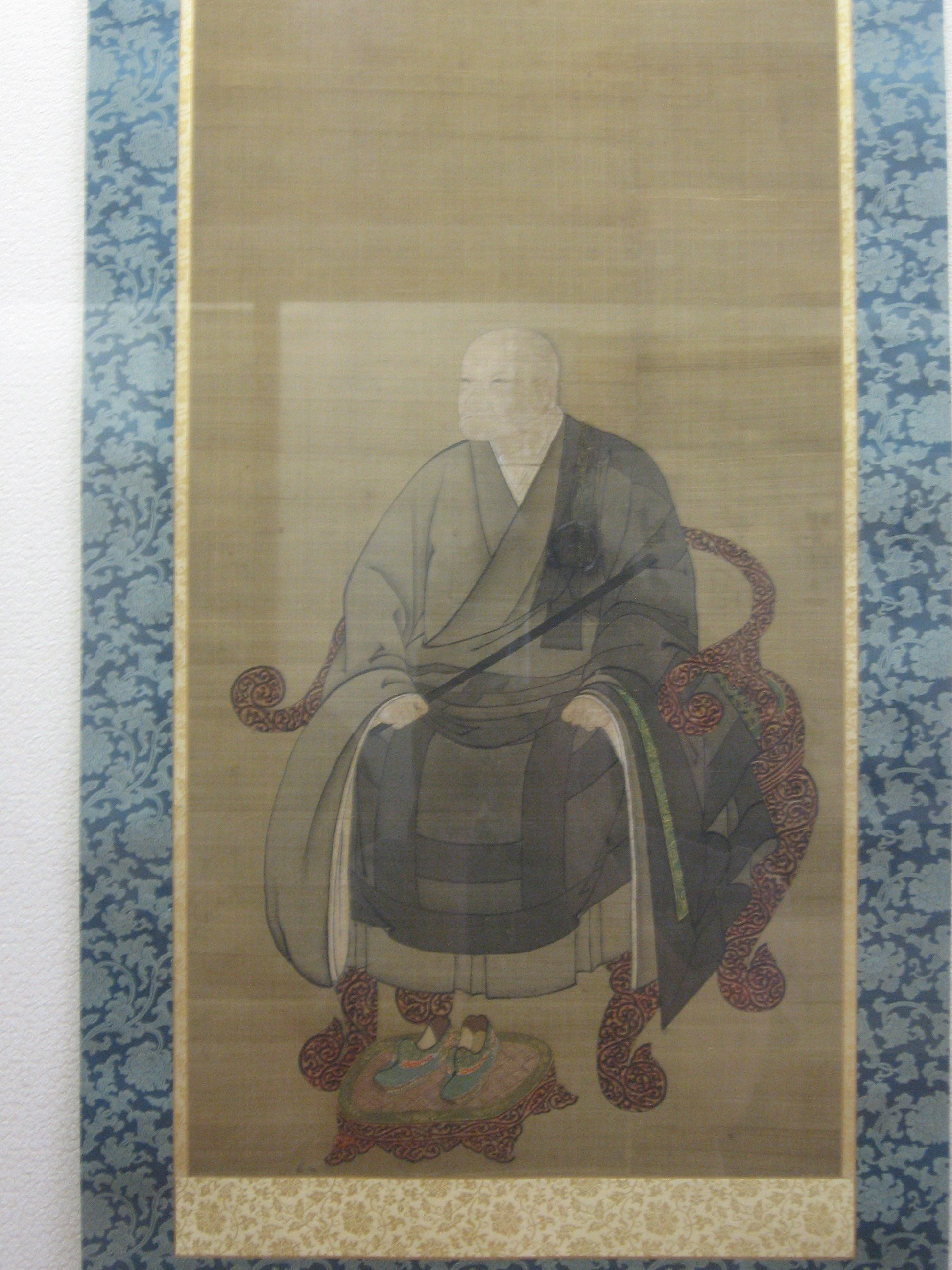 Jakuen was a disciple of Dōgen who founded Hōkyōji. This is a poor photograph of a thirteenth-century portrait of him, but it is non-replaceable as it was taken in Hōkyōji's treasure house which is normally off limits to visitors.